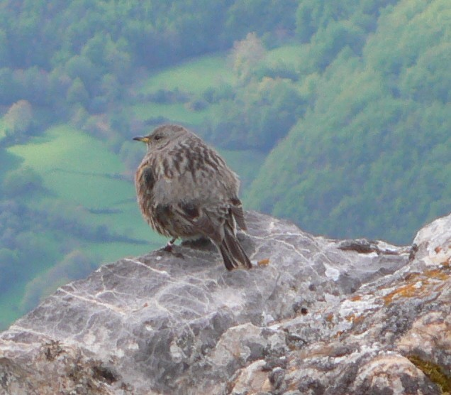 Alpine Accentor Prunella collaris At El Cable, 1850 m above Fuente De, Picos de Europa, Sspain